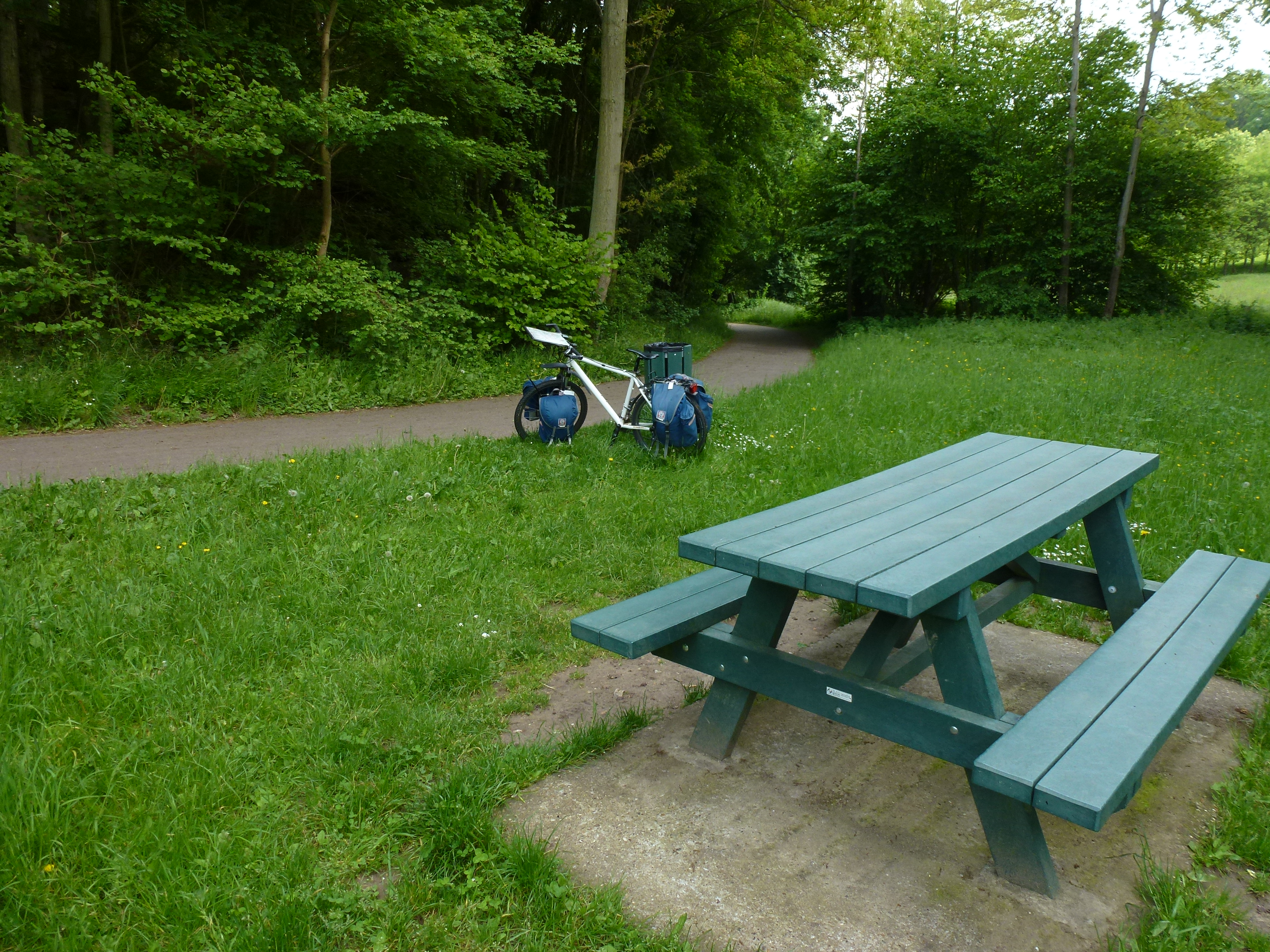 Voie verte Évreux-Vallée du Bec 02, Aviron